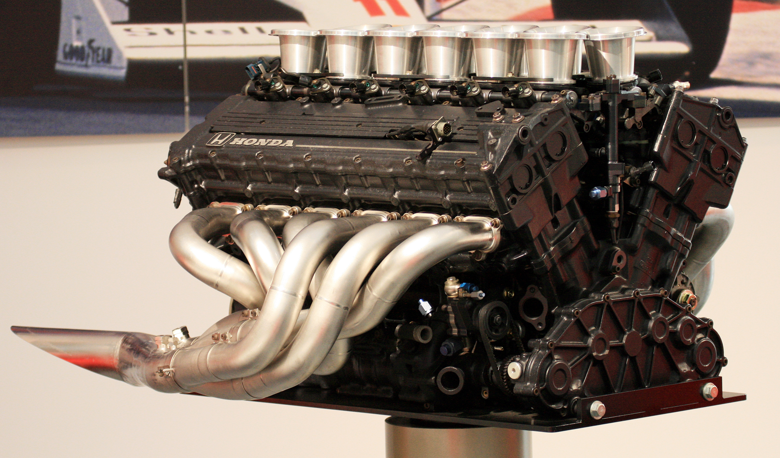 A 1991 Honda RA121E engine displayed in the Honda Collection Hall, Motegi, Tochigi, Japan